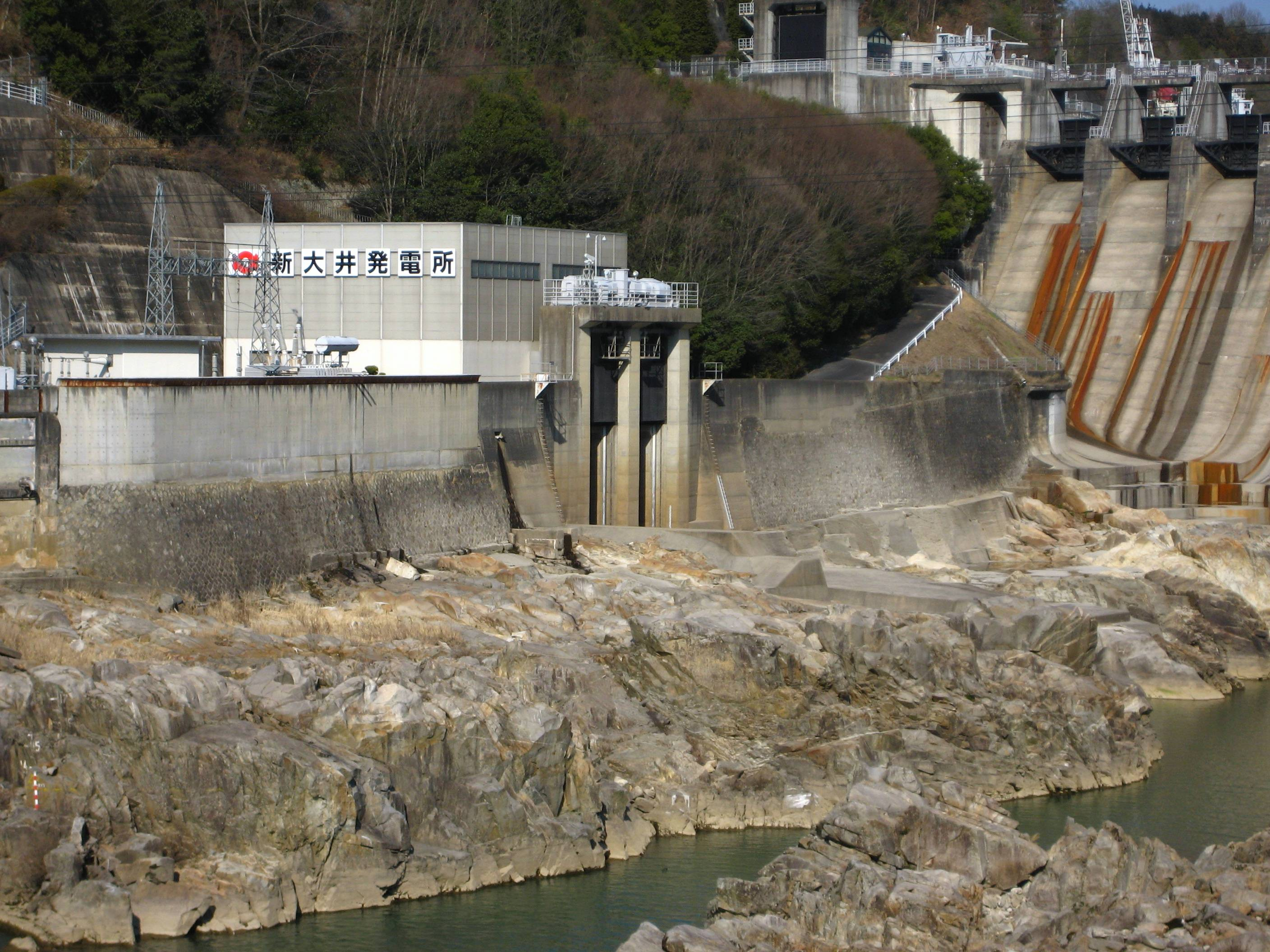 Shin'ōi power station.